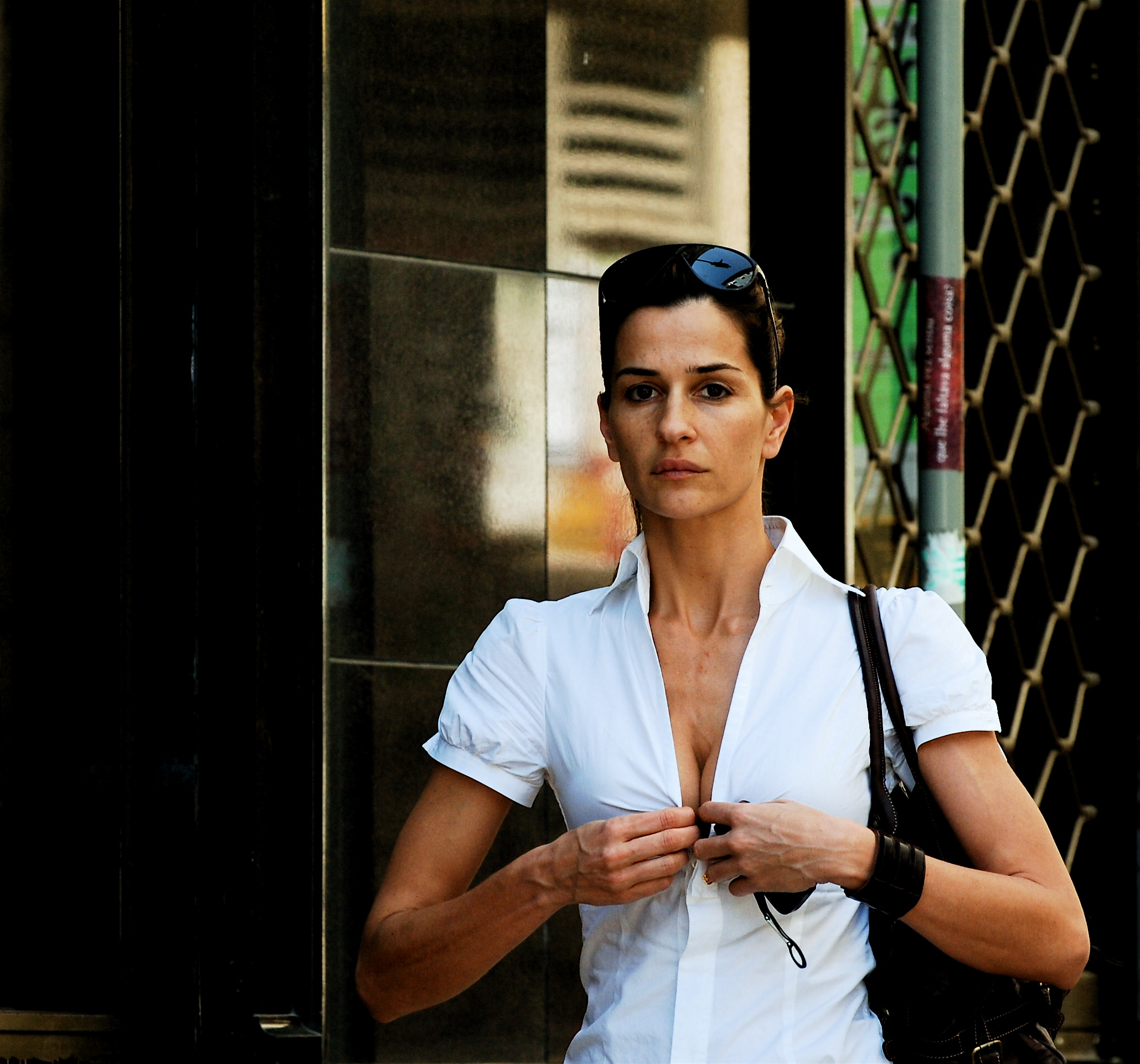 Sofia AparícioOoops... a photographer!